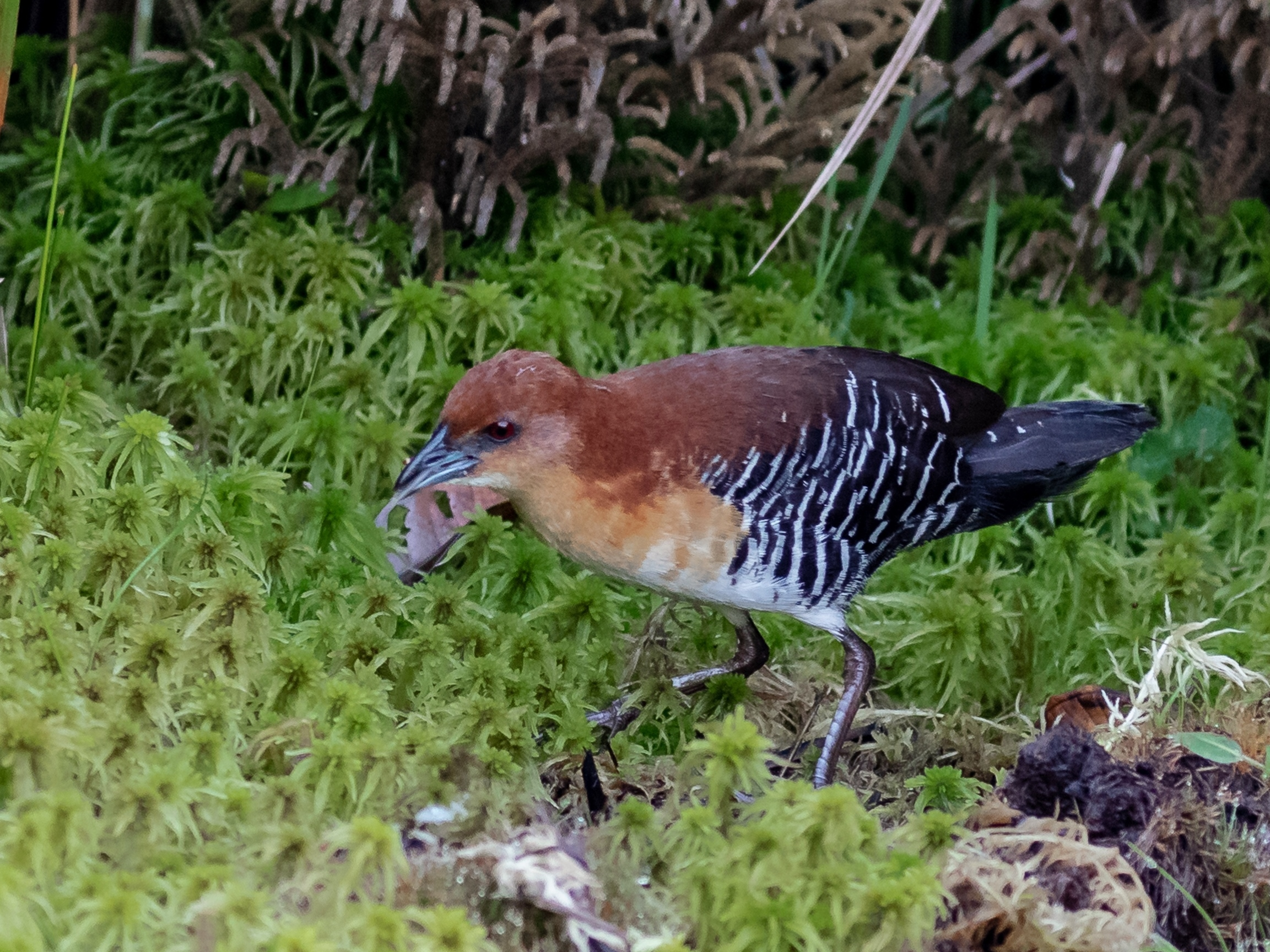 Rufous-faced crake; Dourado, São Paulo, Brazil